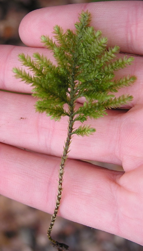 Thamnobryum alopecurum bei Bonn